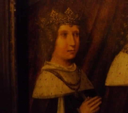 Detail of a painting showing Henry VII, Elizabeth of York and their children. Their son Edmund Tudor died in childhood, yet was painted as a young boy in this picture.